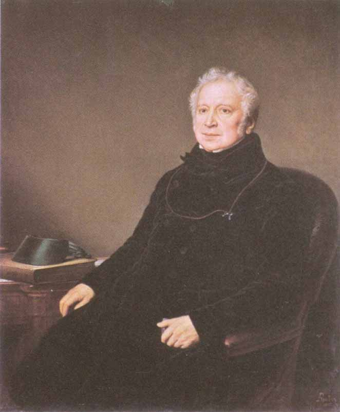 Portrait of Grigory Stroganov (1770-1857)